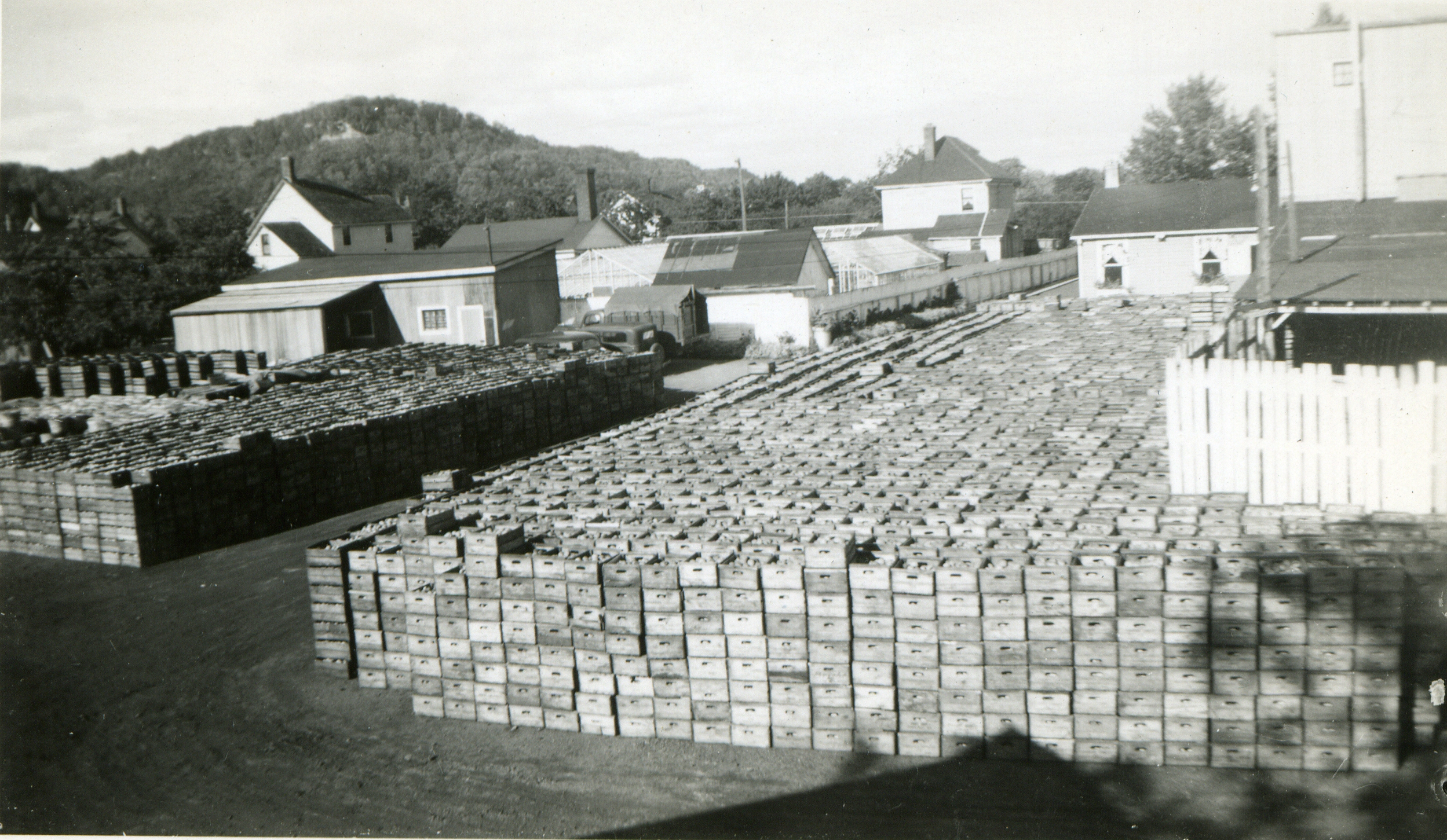 Historical photographs of Beamsville Ontario 1930-1950